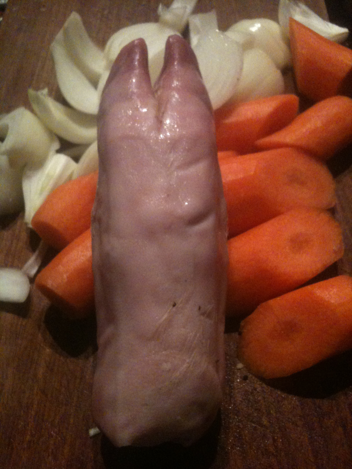 Hugh Fearnley-Whittingstall, in his "Meat" book says that thickening stews using flour robs them of flavour and a pig's trotter does a similar thickening job and also adds more flavour. So here we are, then: my stew is about to come up to a simmer in preparation for three hours' slow cooking with a pig's trotter inside it. I'm pretty interested in how it's going to turn out and also very happy that we have an excellent local butcher that sells stuff like this.